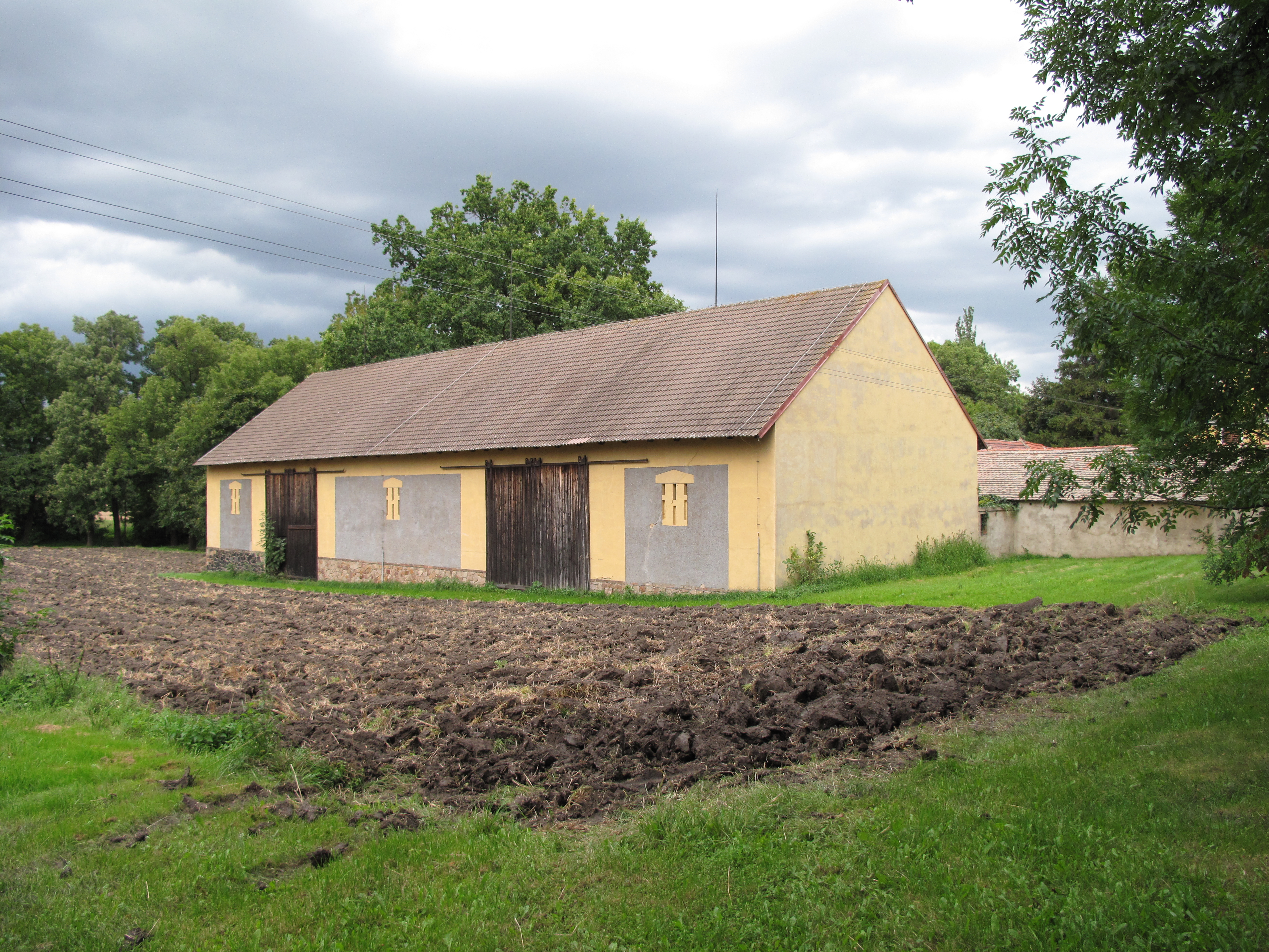 Barn on Lucký mlýn (Lucký Mill) on Modla Stream, Litoměřice District, Czech Republic.